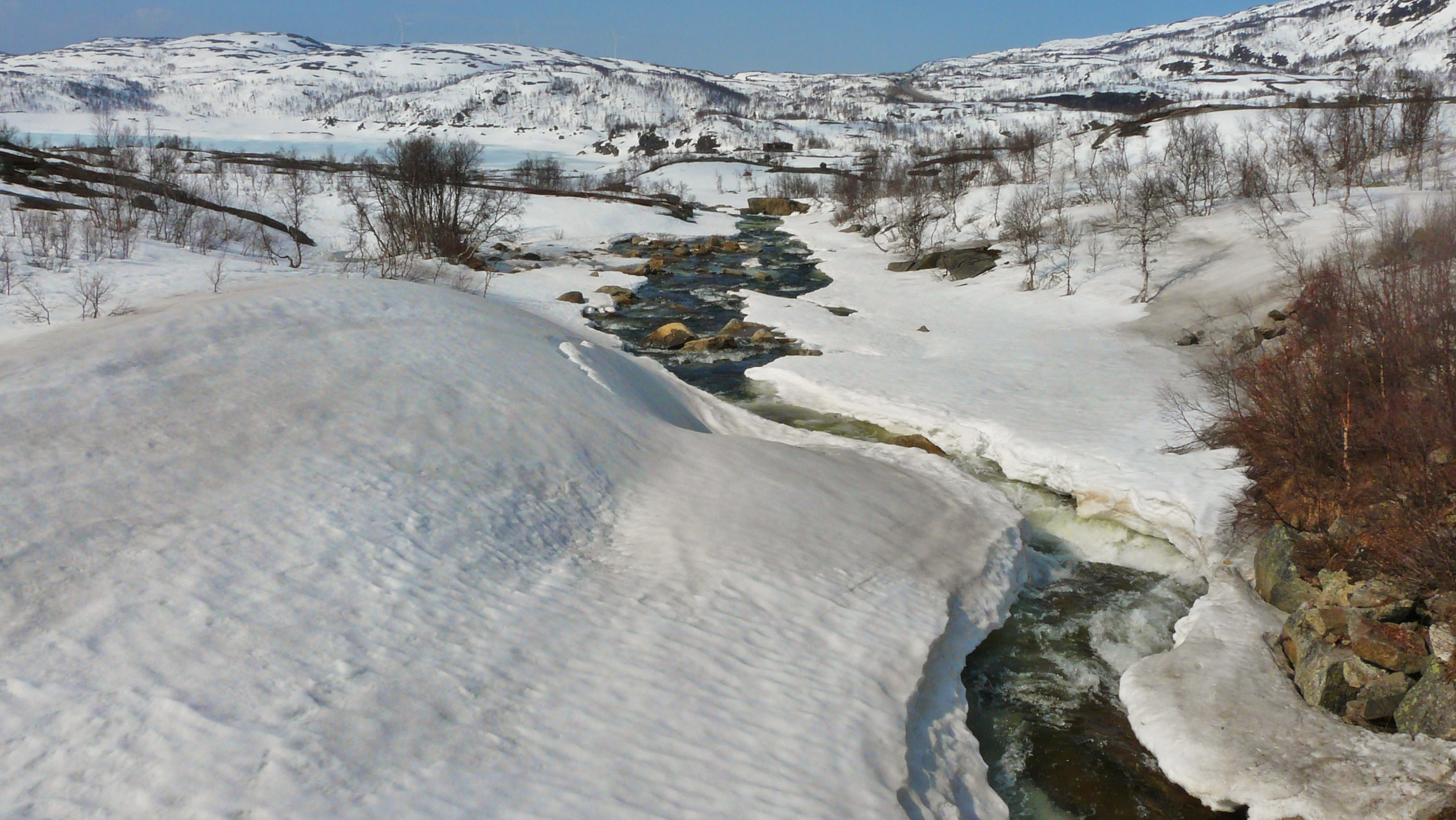 Karenelva (below) and Øvre Jernvatnet (further ahead on the left) as seen from the east from a small bridge on the side of the E10 road in 2009 May.